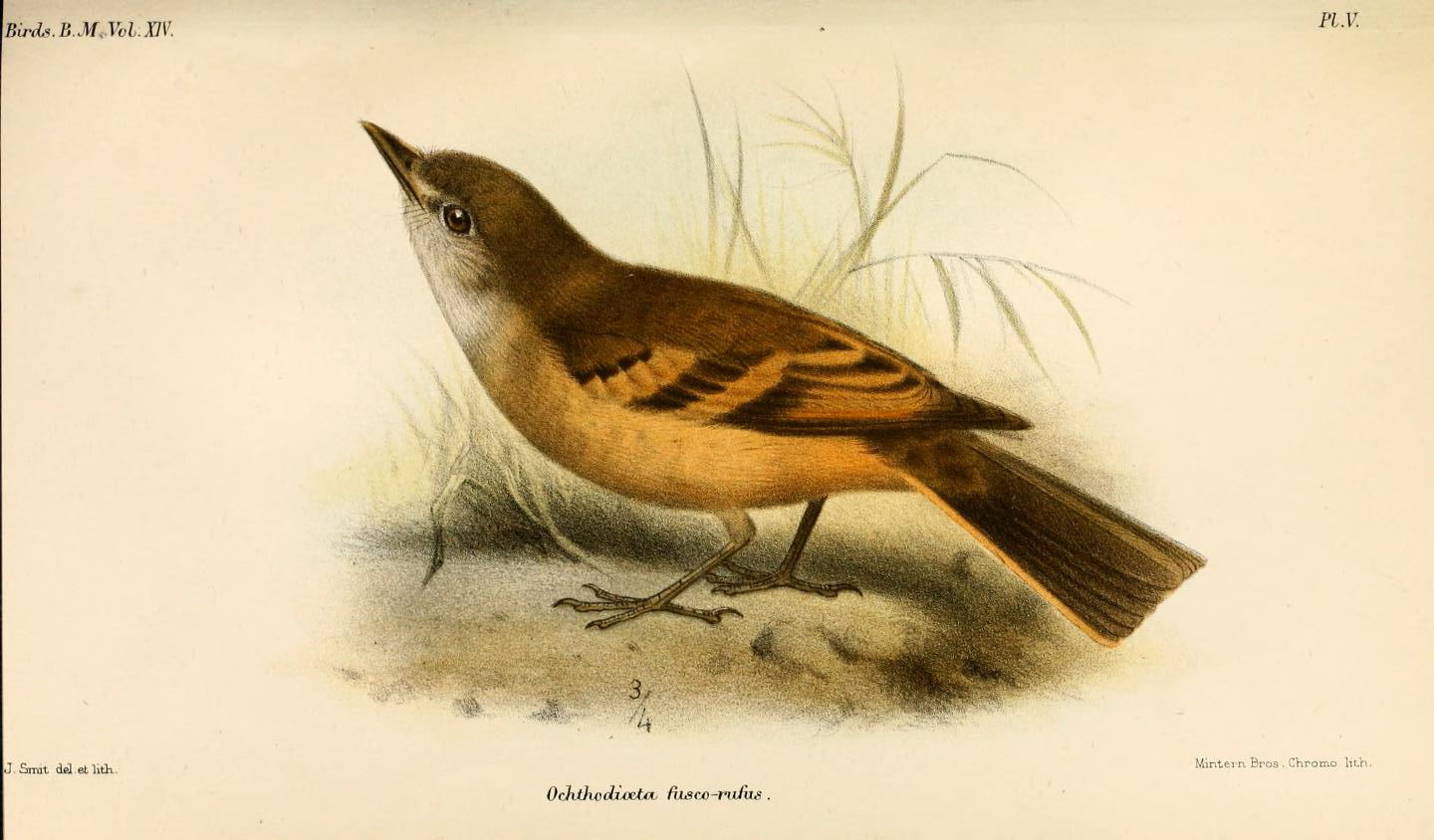 Ochthodioeta fusco-rufus = Myiotheretes fuscorufus, Rufous-bellied Bush-tyrant